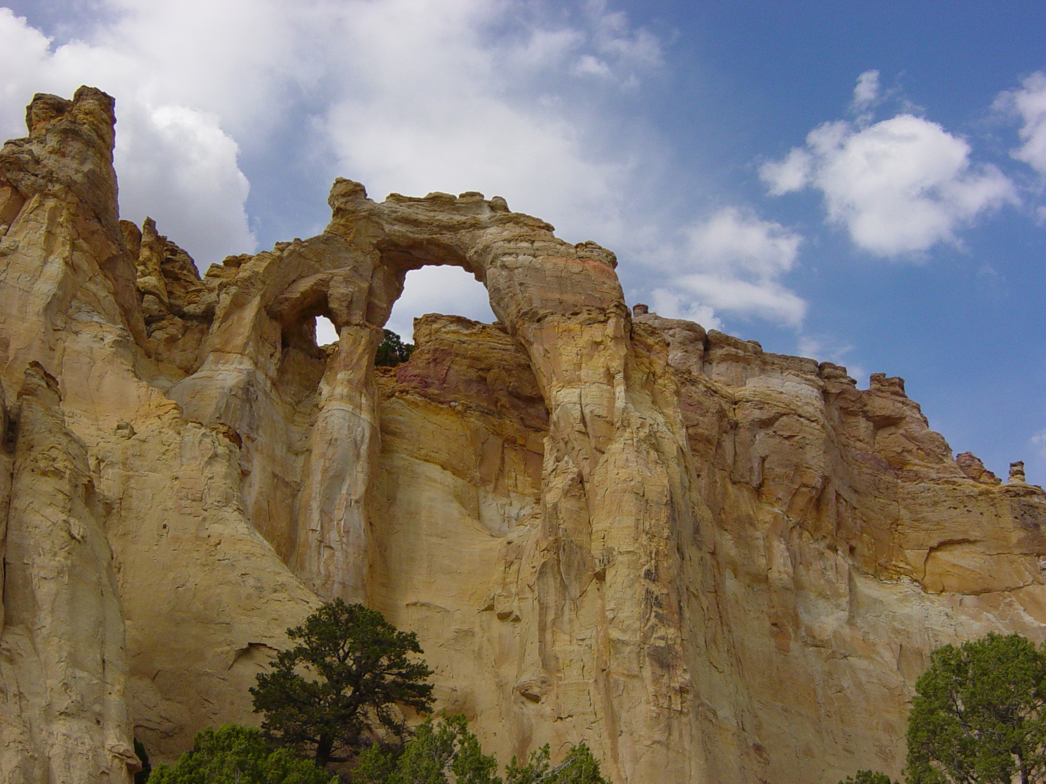 Grosvenor Arch. Image by User:Leonard G.